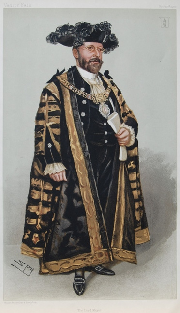 Caricature of Sir Joseph Cockfield Dimsdale Bt. MP JP. Caption reads: "The Lord Mayor".